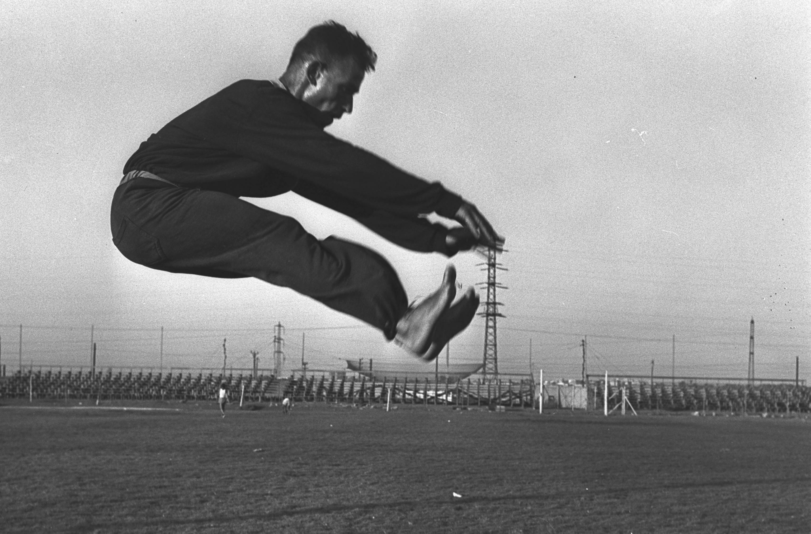 David Kushnir MEMBER OF ISRAEL TRACK AND FIELD TEAM TO THE OLYMPIC GAMES